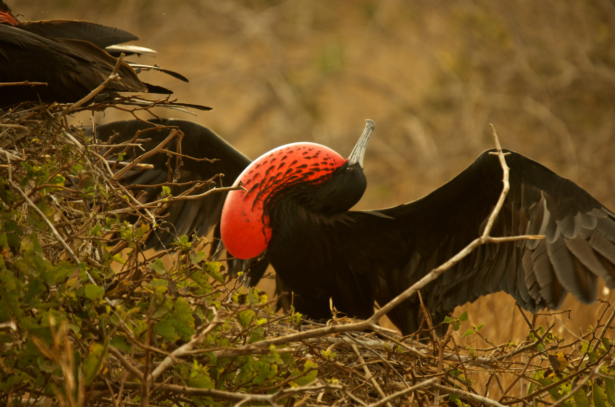 A male Magnificent Frigatebird in the Galapos Archipeligo, Ecuador.